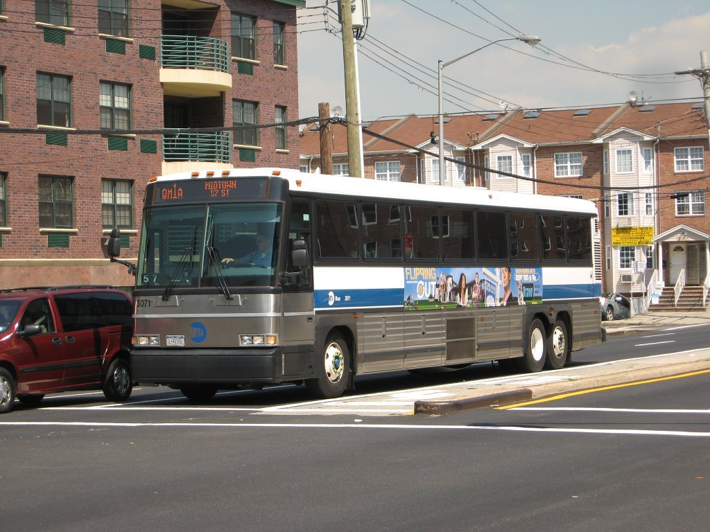 MTA Bus MCI D4500CL #3071 on Union Turnpike on the QM1.